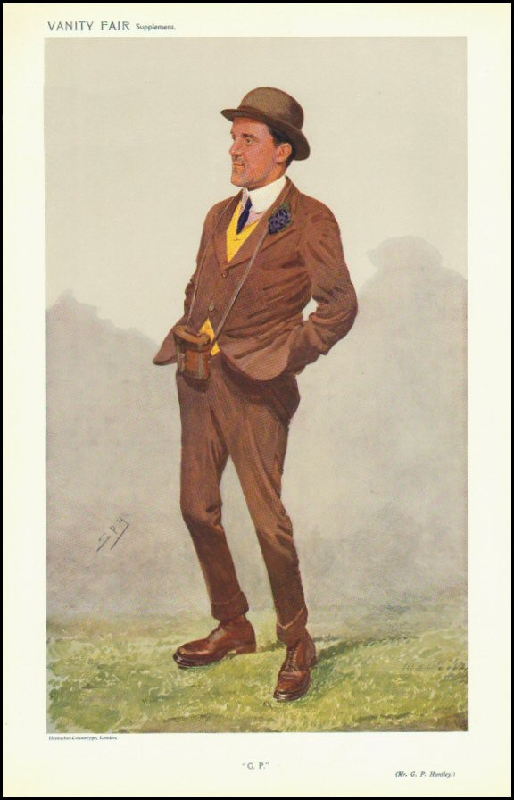 Men of the Day No.1110: Caricature of G P Huntley. Caption reads: "GP"